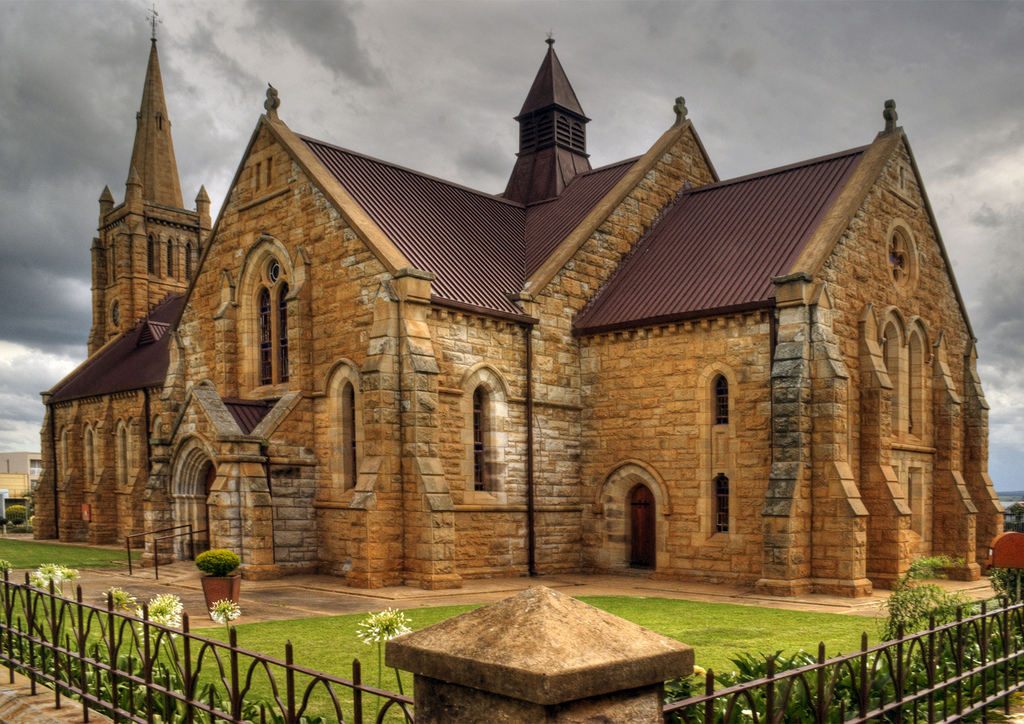 Dutch Reformed Church, Vryheid, South Africa This media shows a South African Protected Site with SAHRA file reference 9/2/448/0002.